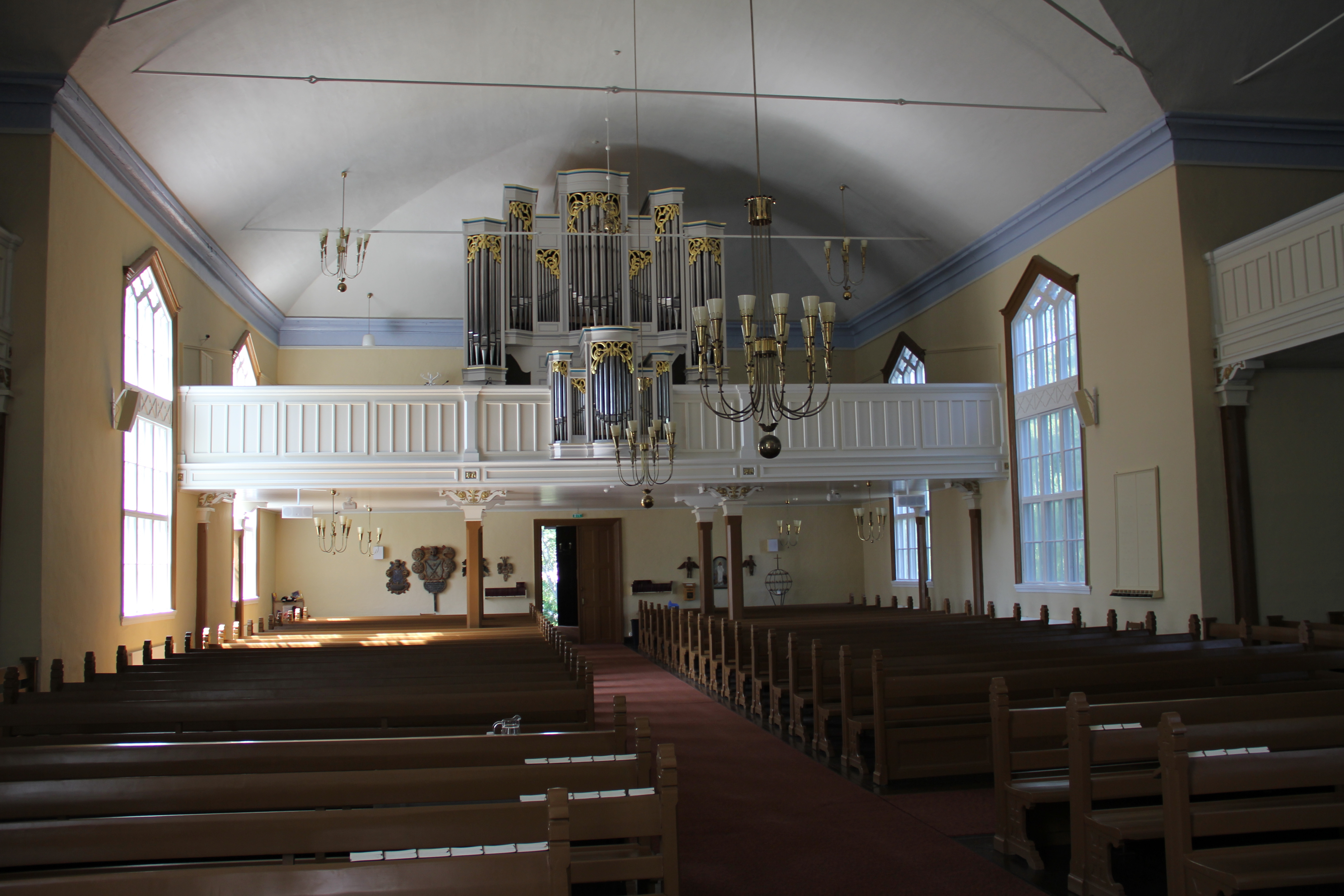 Urjala church, Urjala, Finland. Originally designed by Martti Tolpo, modifications in 1869 designed by architect Carl Albert Edelfelt. Completed in 1806. - Back of the church hall and organ